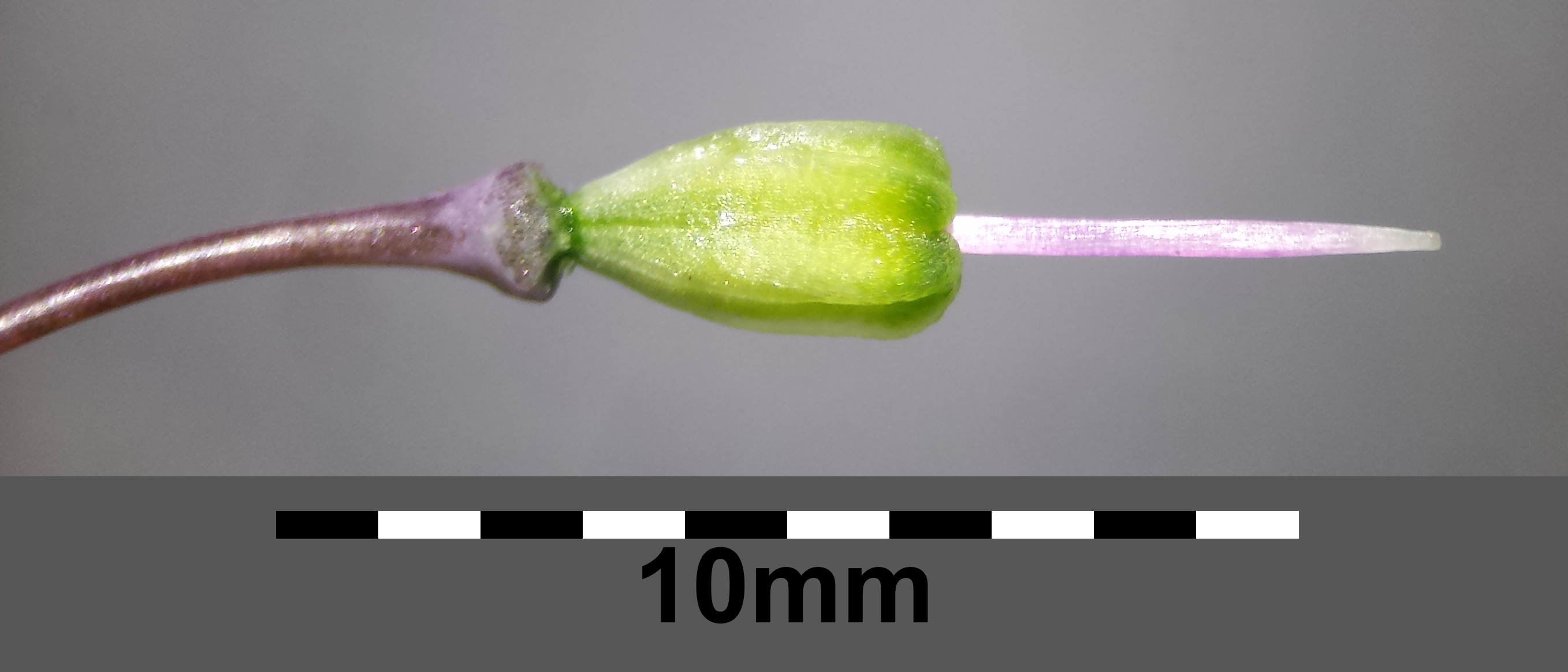 Ovary with stylus Taxonym: Allium carinatum subsp. carinatum ss Fischer et al. EfÖLS 2008 ISBN 978-3-85474-187-9 Location: Steinberg near Niederhollabrunn, district Korneuburg, Lower Austria - ca. 375 m a.s.l. Habitat: border of a shrubbery